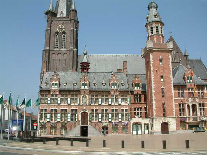 Town Hall of Eeklo, Belgium